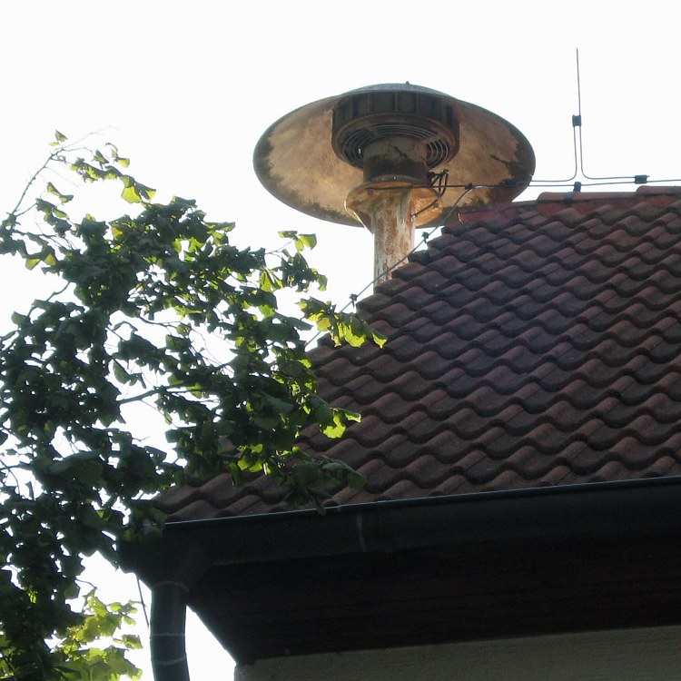 Siren in Nedrahovice, Příbram District, Central Bohemian Region, the Czech Republic.